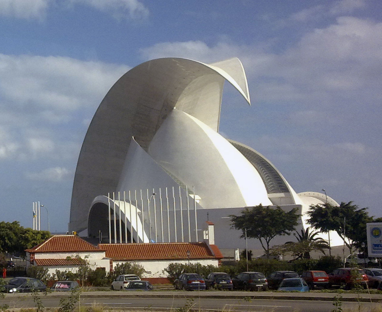 Photo of Auditorio de Tenerife.